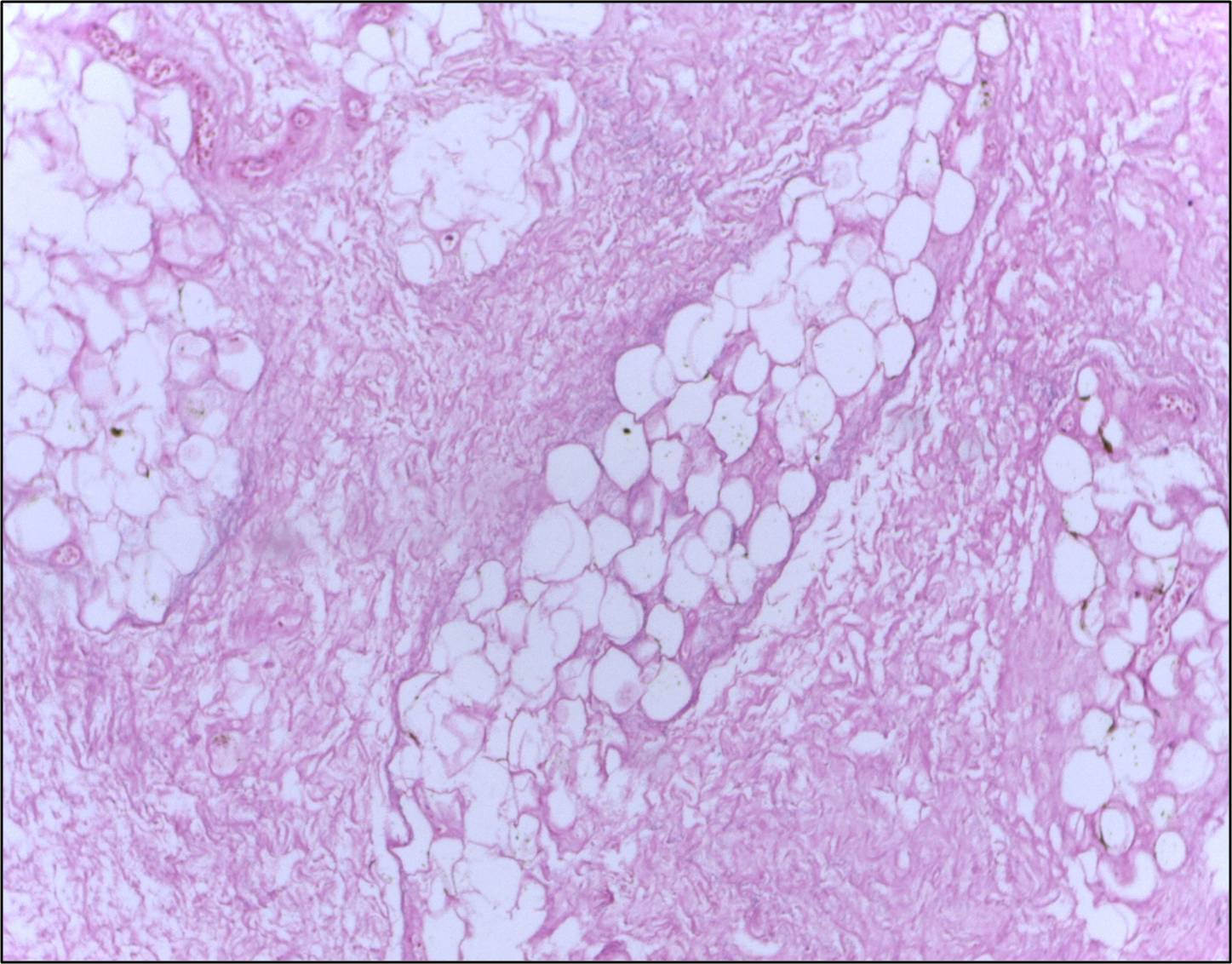 Breast lump showing an area of fat necrosis showing shadowy outlines of necrotic adipocytes surrounded by an inflammatory reaction with cholesterol clefts [H&E stain 4X]